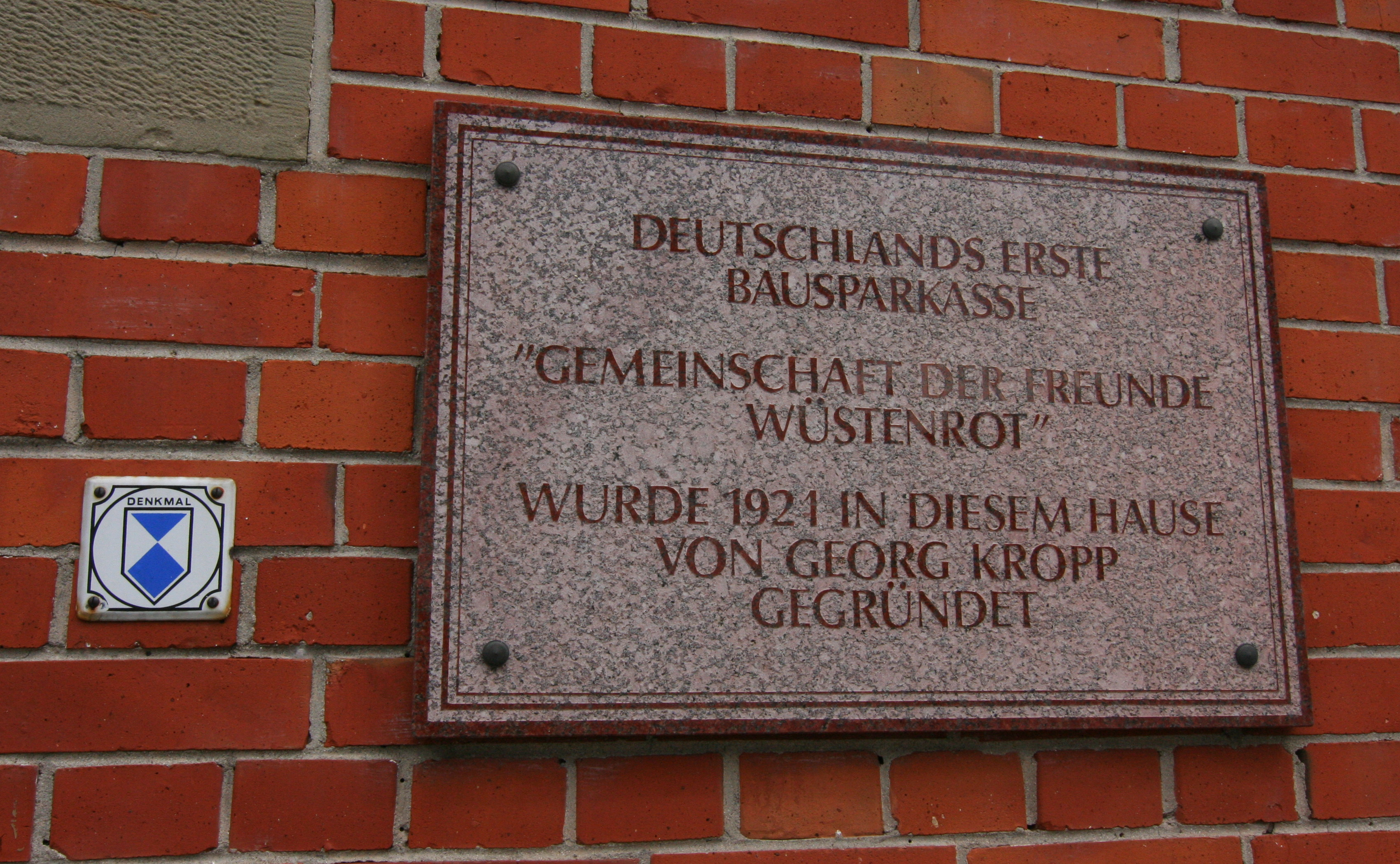 The house Haller Straße 3 in Wüstenrot, a cultural heritage site, place where Georg Kropp's first building society was founded, today a museum. Detail showing the heritage sign